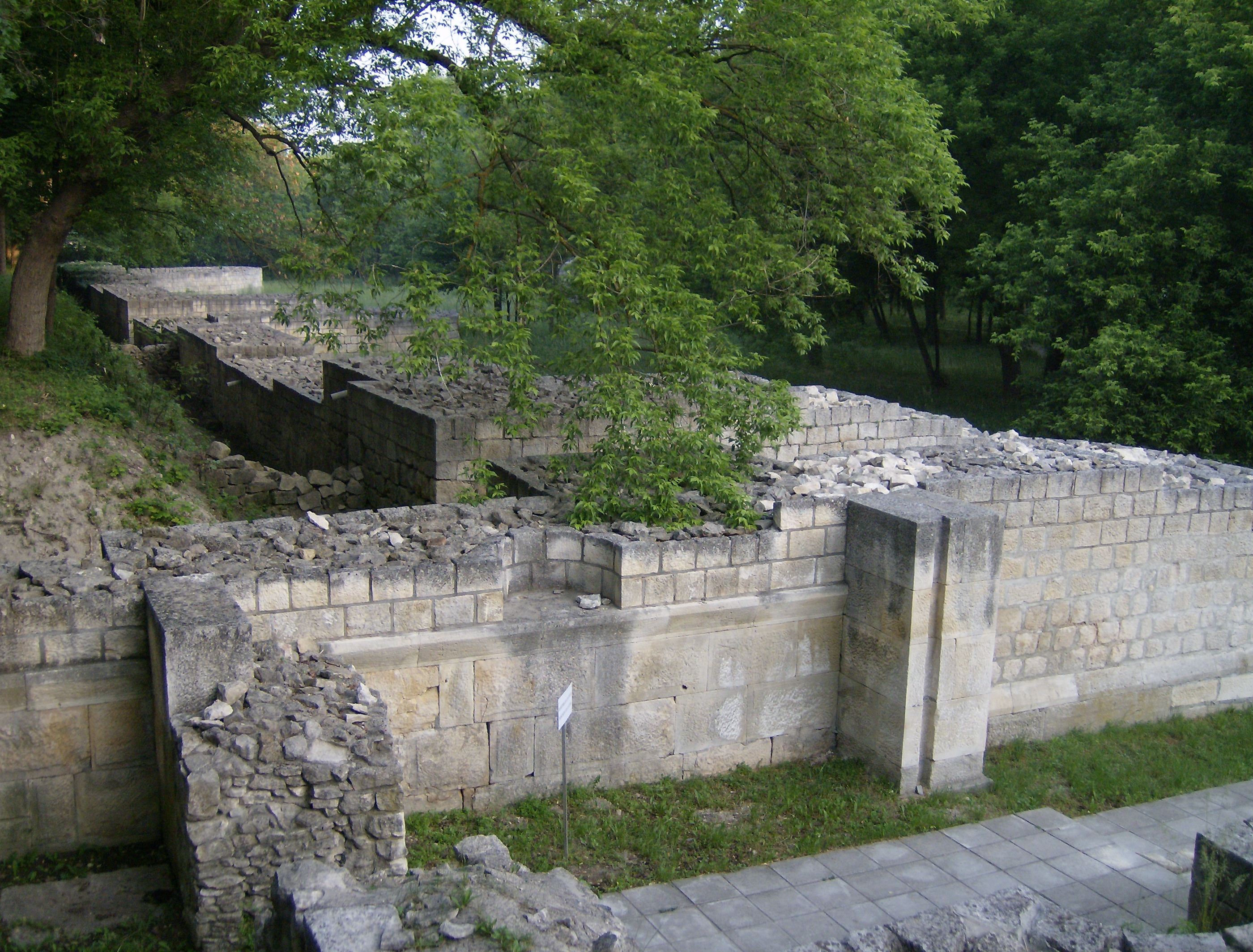 Abrittus